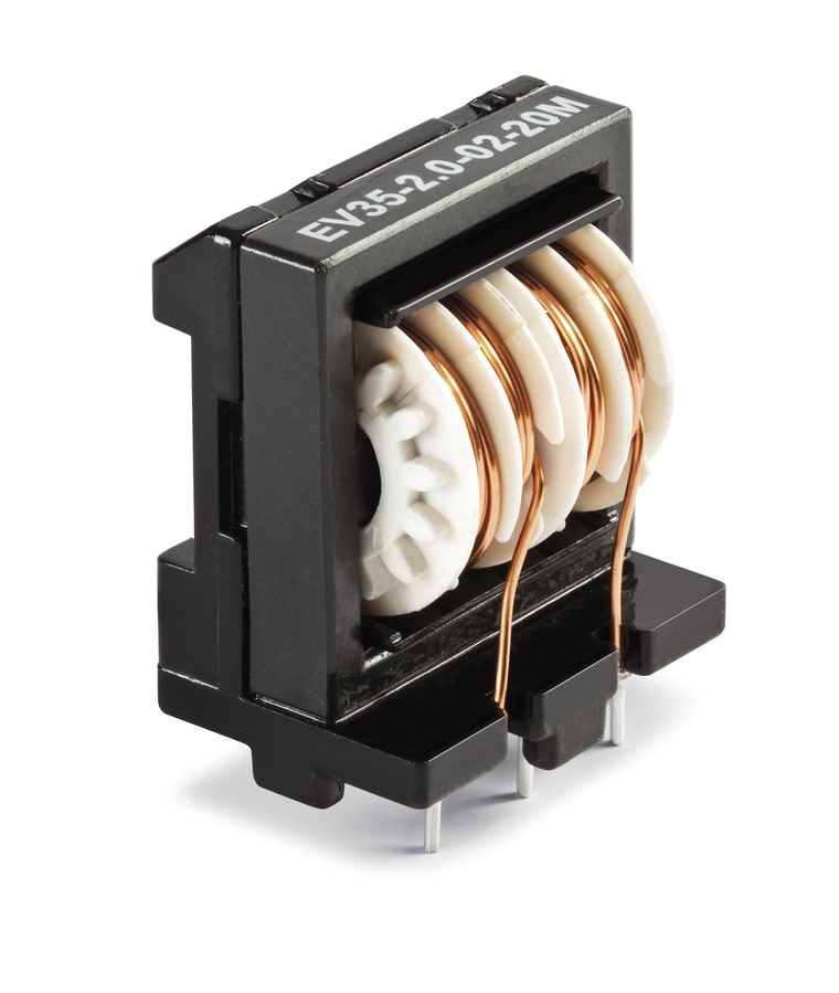 Schaffner EV 35 - Common mode choke 2A with 20mH inductance